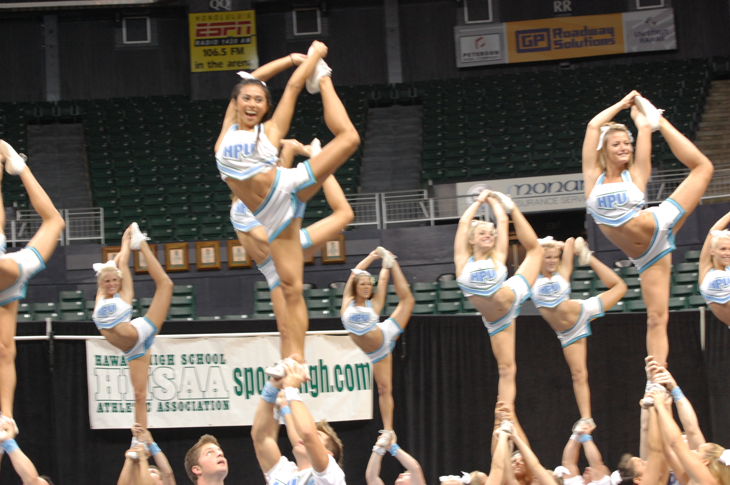 Cheerleaders doing a scorpion